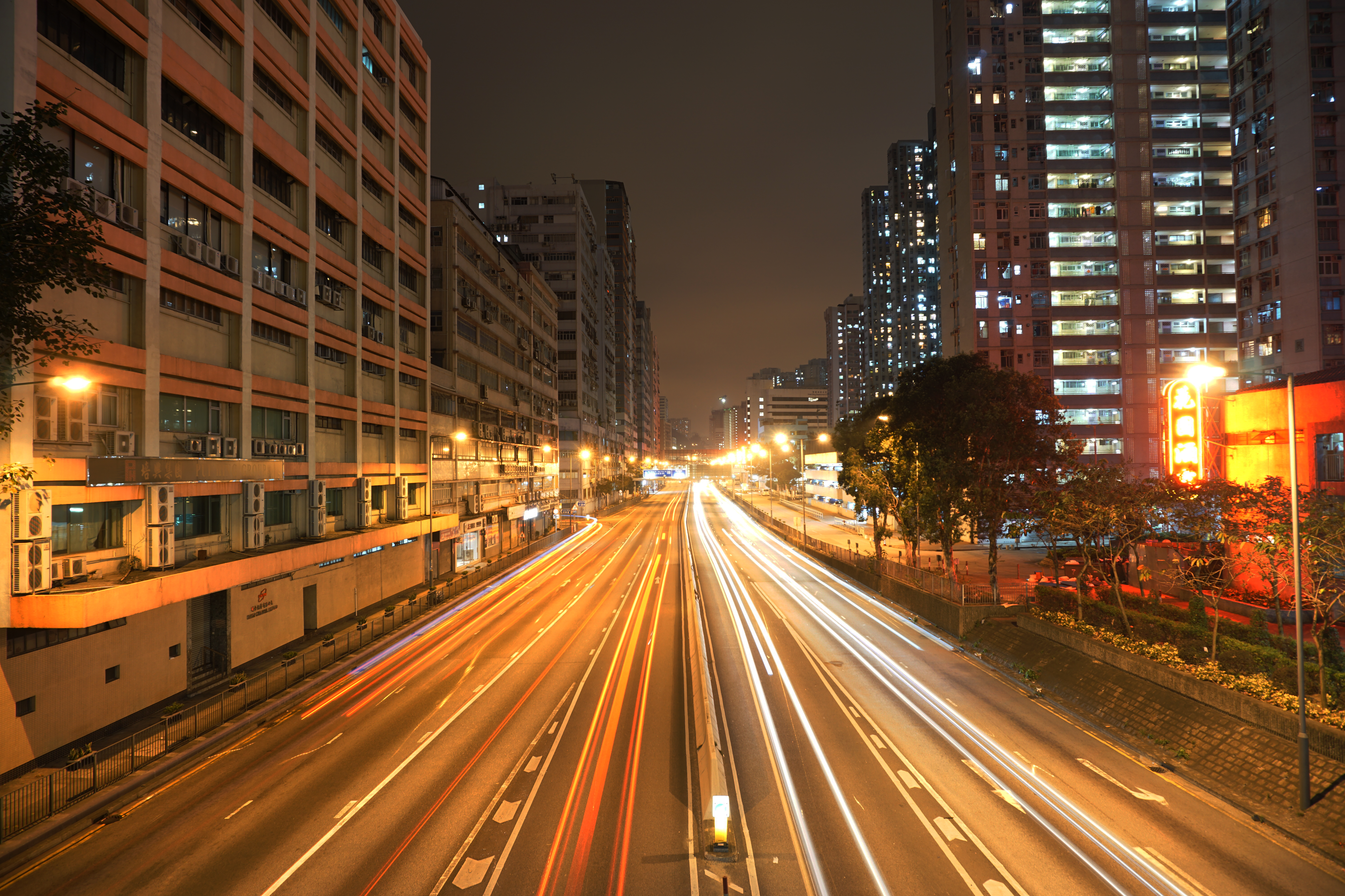 Kwai Chung Road in Kwai Hing, Hong Kong.